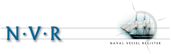 Logo of the Naval Vessel Register.